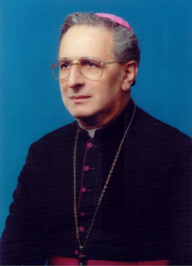 quarto Bispo de Aveiro após Diocese Restaurada